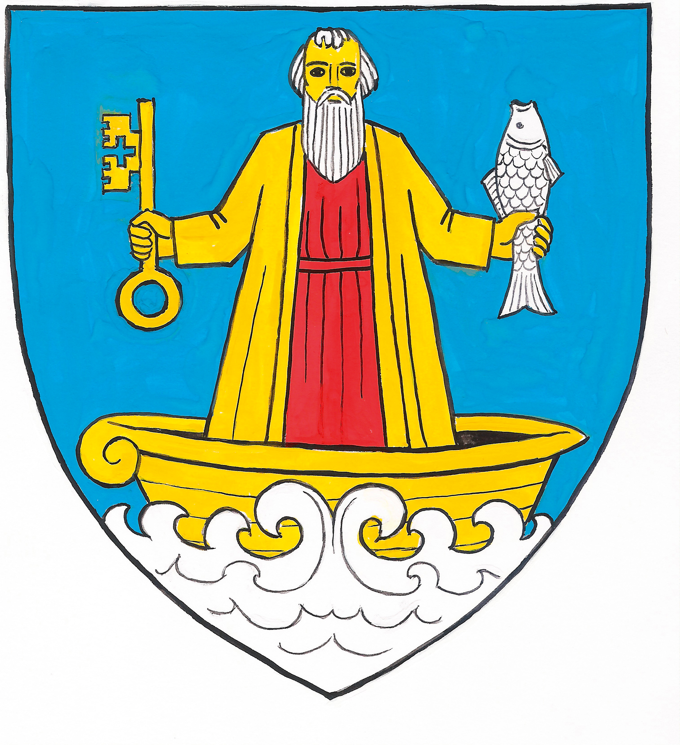 emblem of Pöchlarn